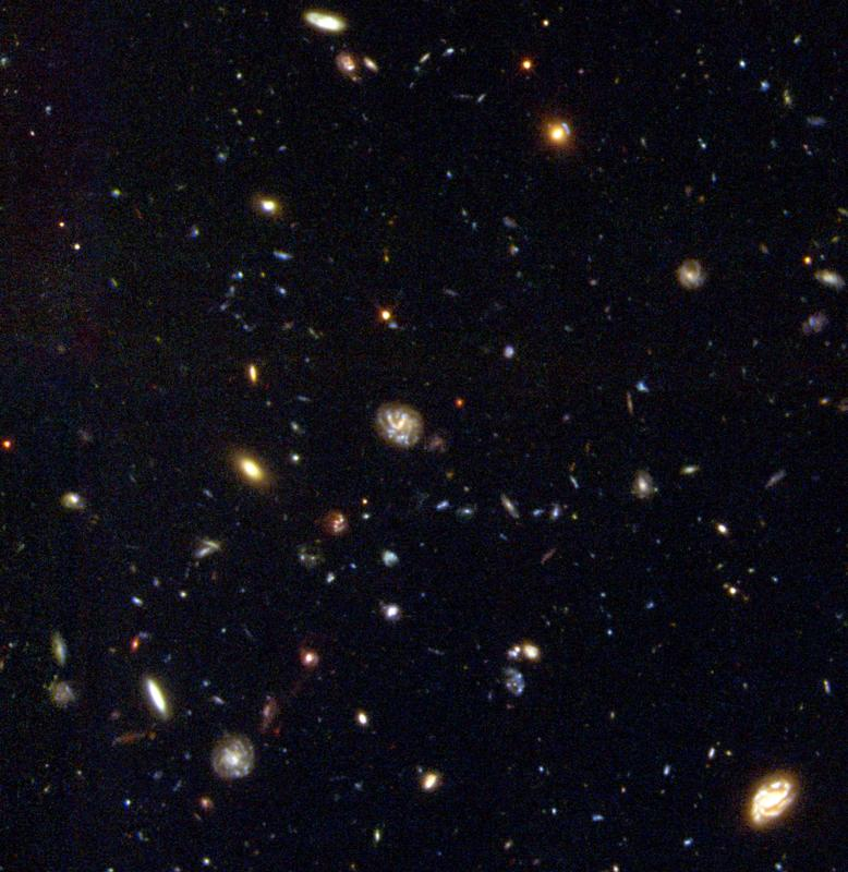 The Hubble Deep Field South.